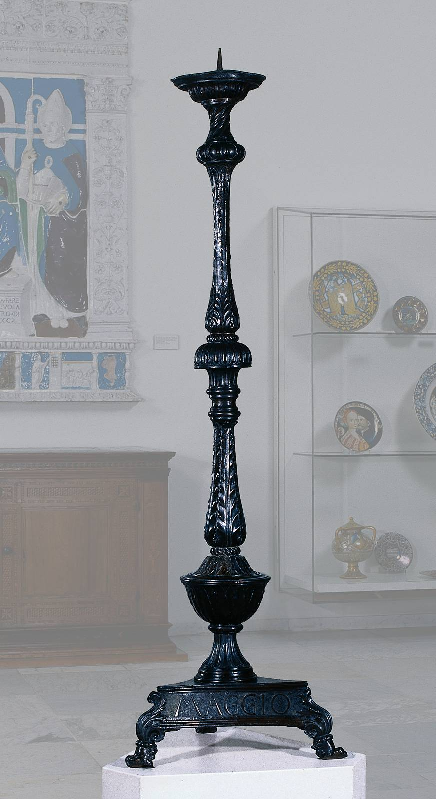 The Candlestick by Andrea del Verrocchio